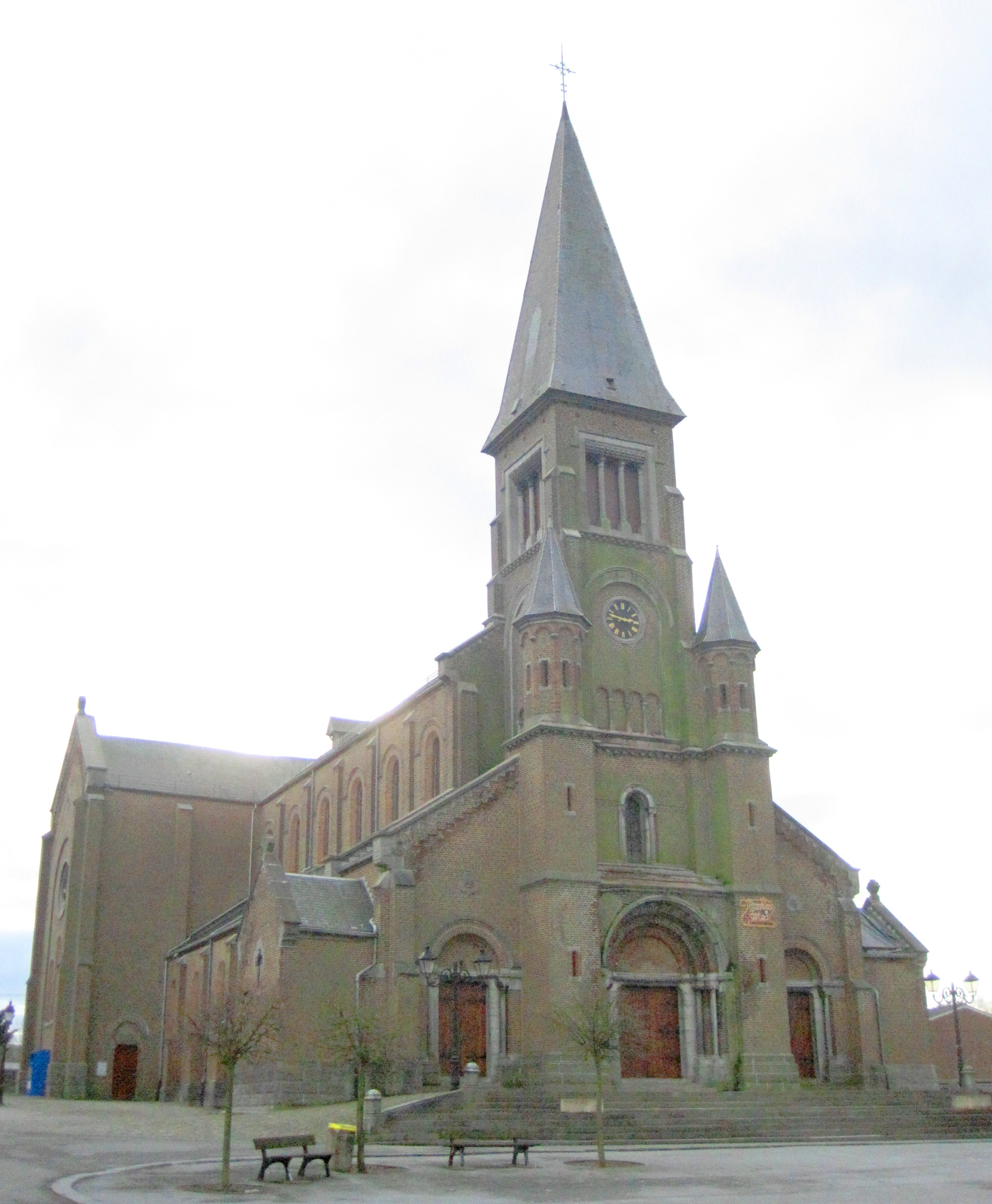 Spy (Belgium), the curch of Saint Amand (1900).